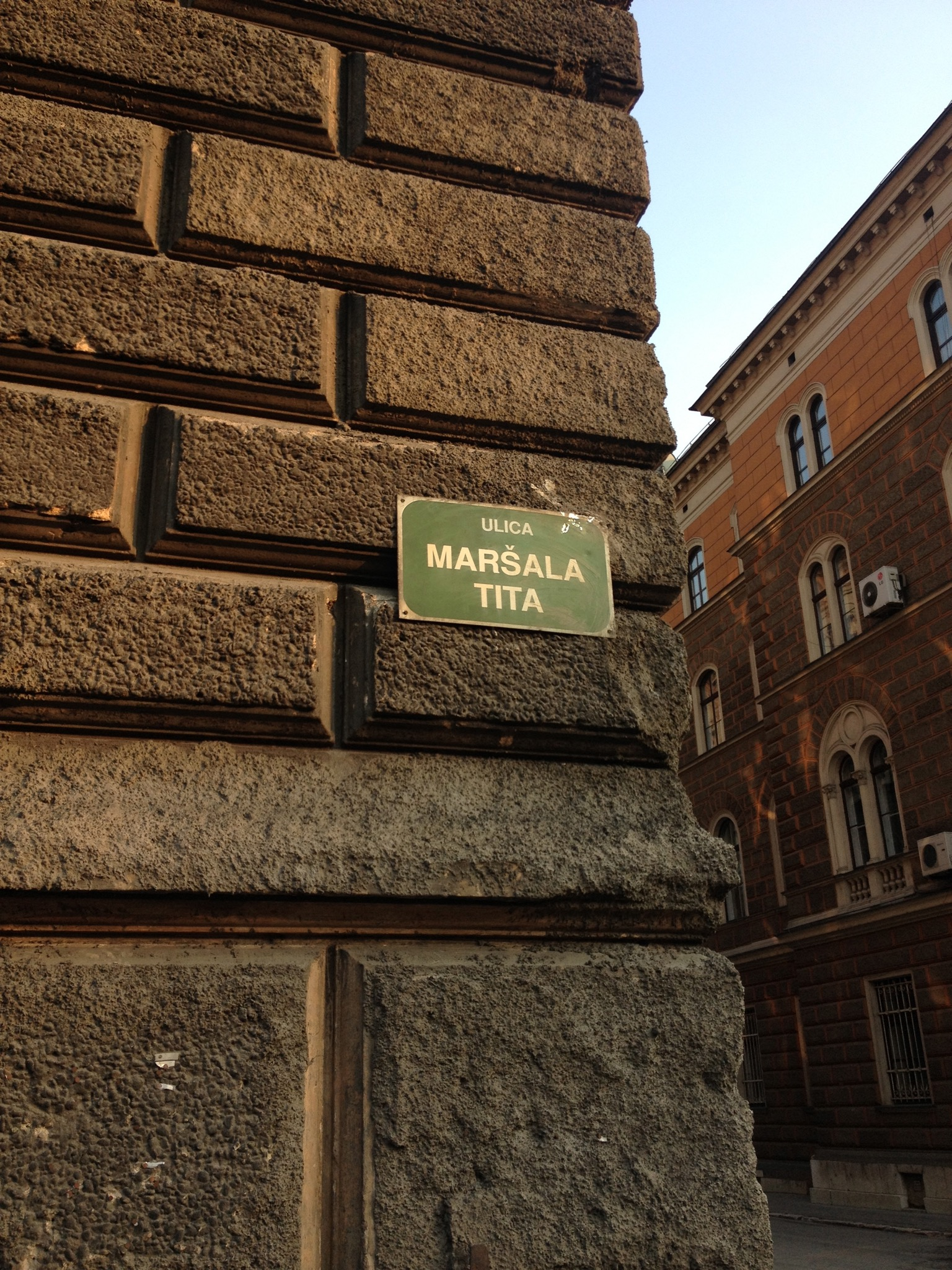 Street sign for Ulica Maršala Tita, in honor of Josip Broz Tito, taken in Sarajevo, Bosnia and Herzegovina